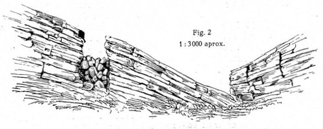 Vertical view (diagram) of the tectonic fault caused by 1845 Tivissa earthquake